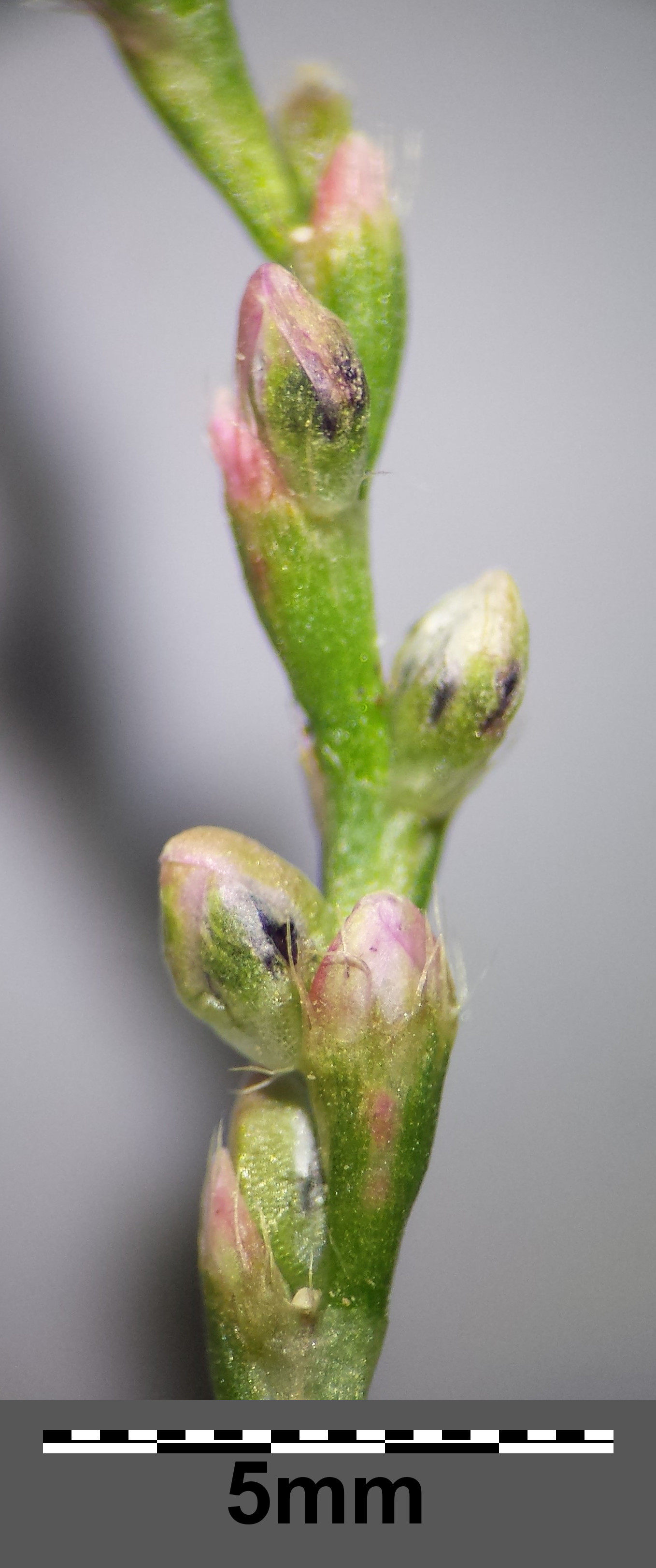 Inflorescence Taxonym: Persicaria minor ss Fischer et al. EfÖLS 2008 ISBN 978-3-85474-187-9 Location: Glasweiner Wald west of Herzogbirbaum, district Korneuburg, Lower Austria - ca. 325 m a.s.l. Habitat: forest track